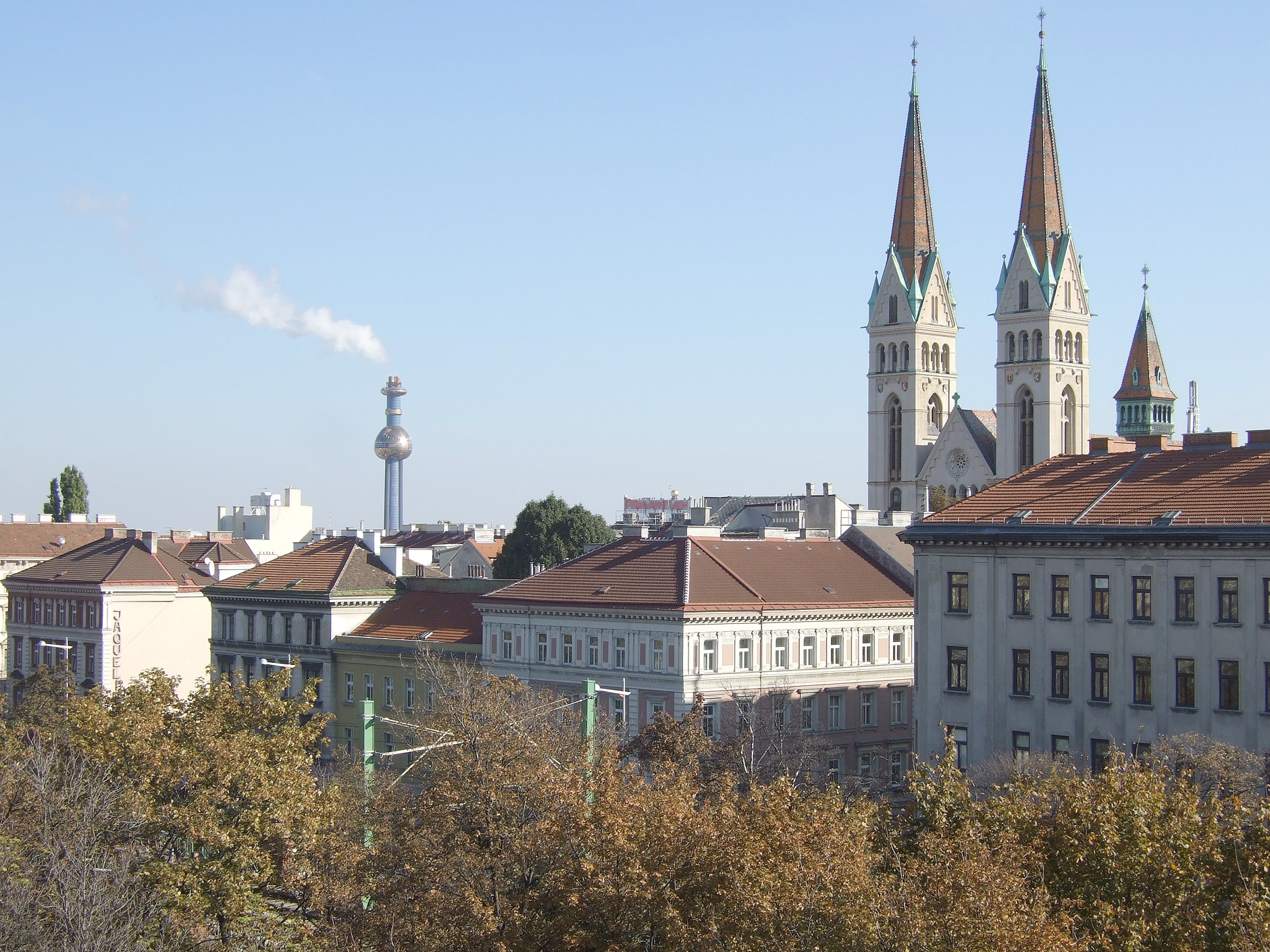 View of Alsergrund (9th district, Vienna) seen from Währinger Gürtel; right: Canisius-church, left: thermal power plant Spittelau, designed by Friedensreich Hundertwasser